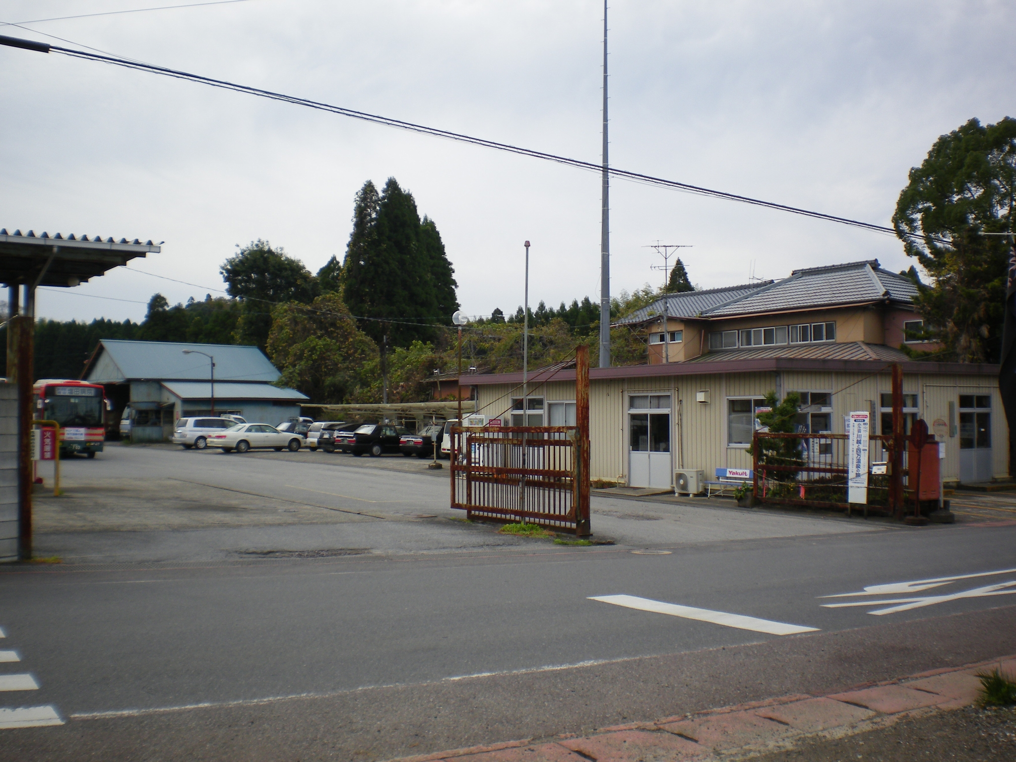 Kominato railway bus, Otaki Shed.